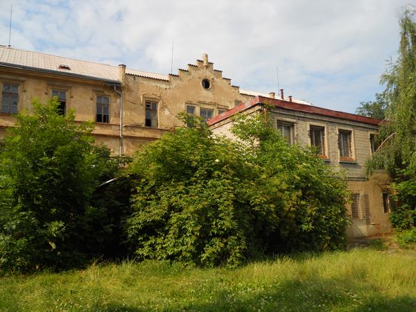 Petynka building